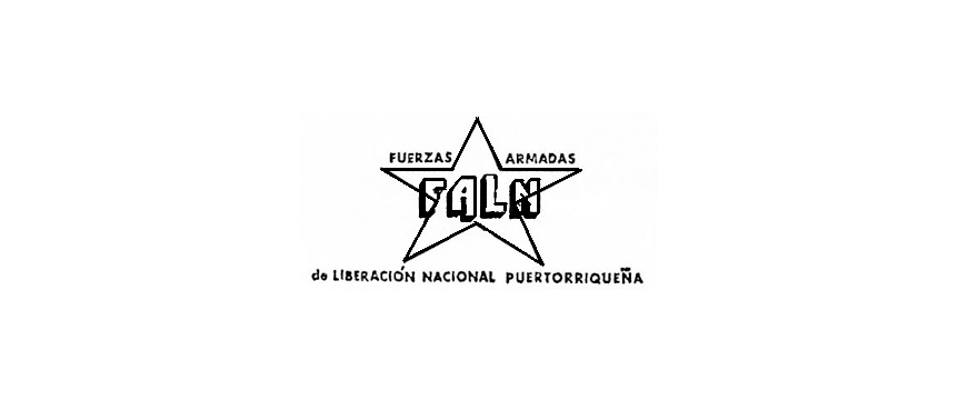 Logo used by the group Armed Forces of National Liberation (Puerto Rico) in their communications